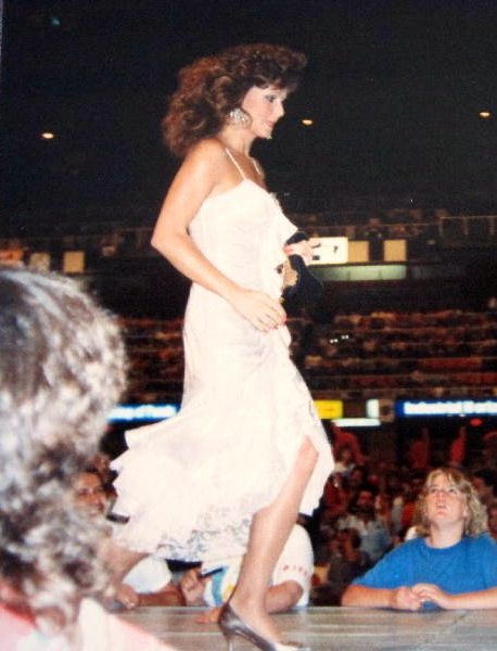 Professional wrestling manager Miss Elizabeth